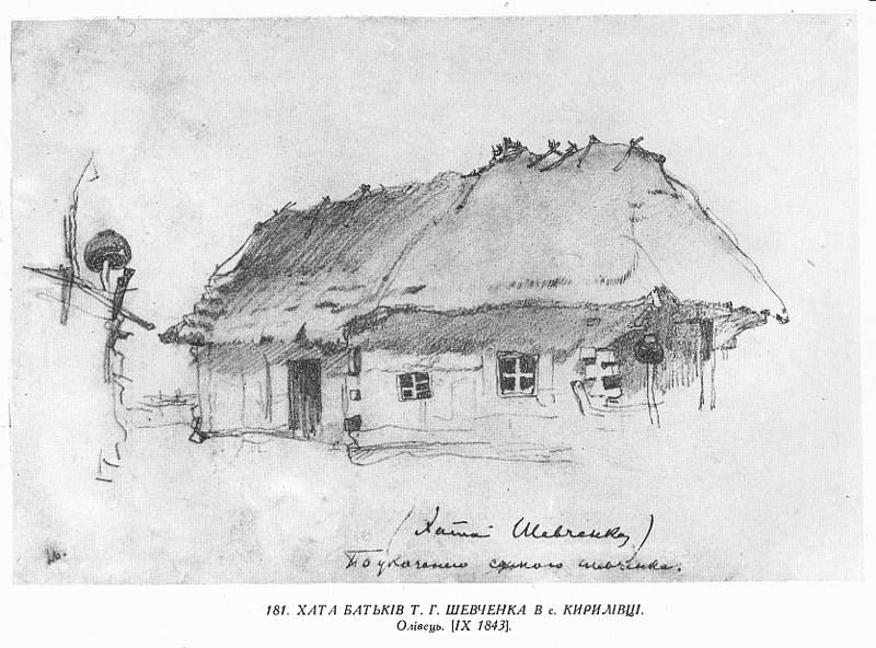 Painting of Taras Shevchenko